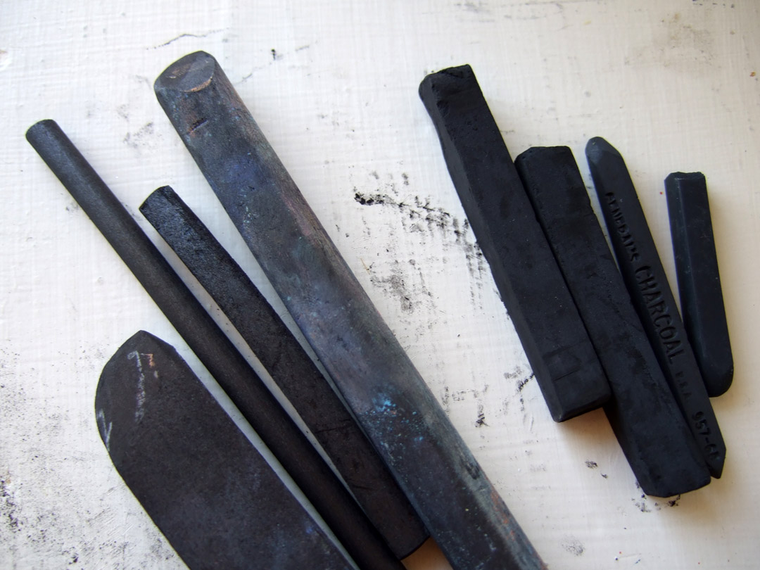 4 "vine" charcoal sticks and 4 compressed charcoal sticks. Drawing materials.